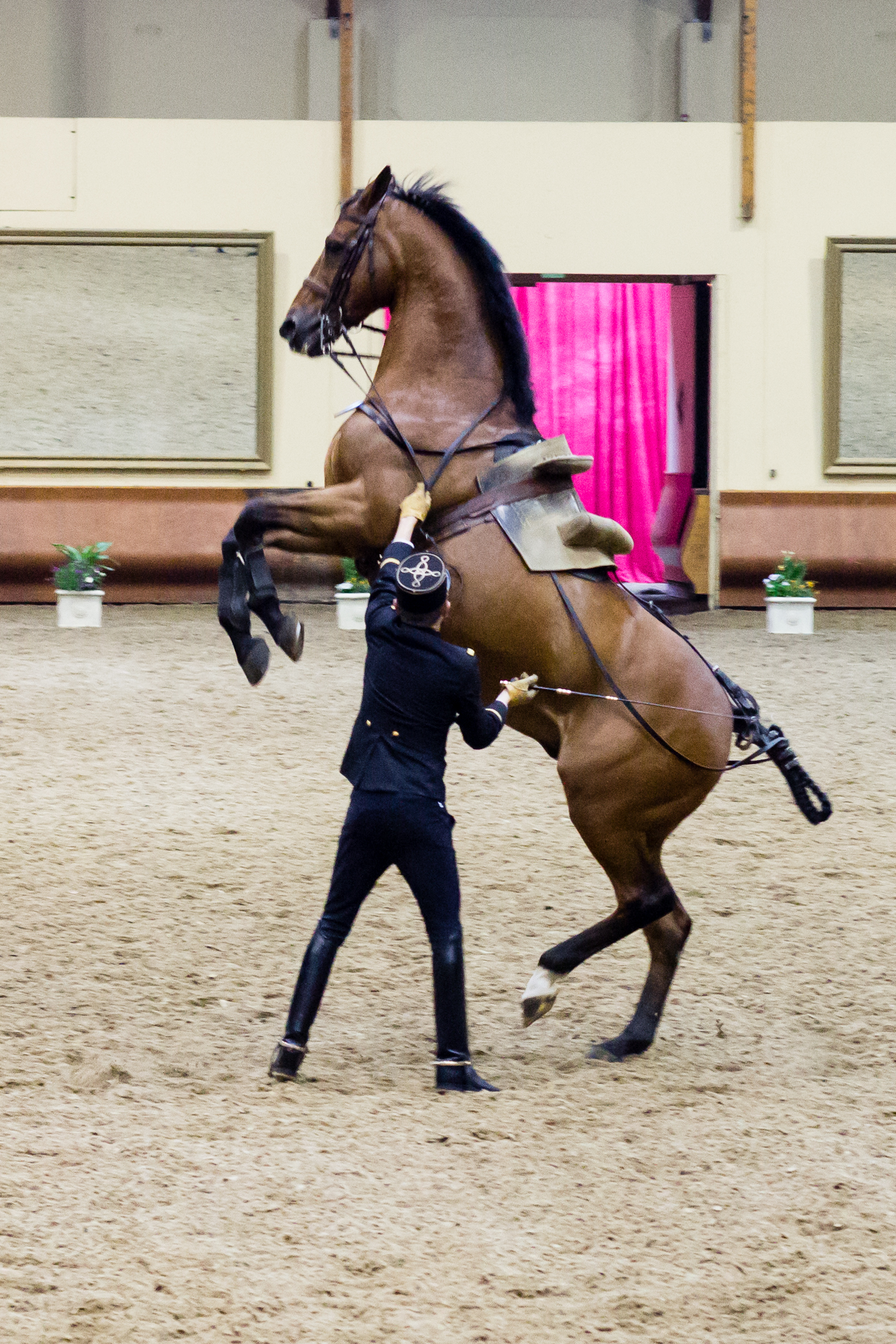 Public performance of the Cadre noir on the 19 May 2012.